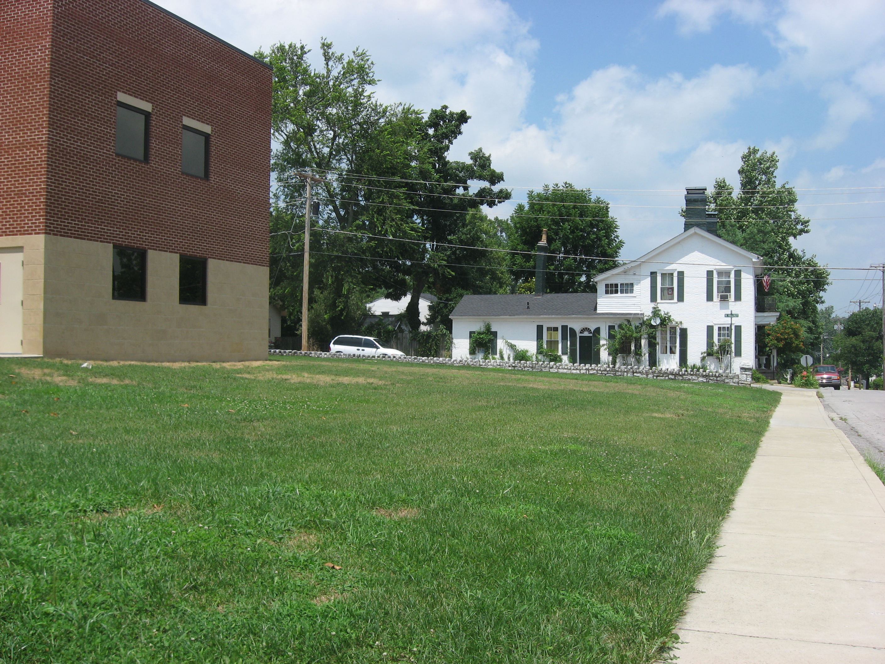 Site of the J.S. Bronaugh House, which was formerly located at 103 N. Second Street in Nicholasville, Kentucky, United States. Although it has been destroyed, it remains listed on the National Register of Historic Places.